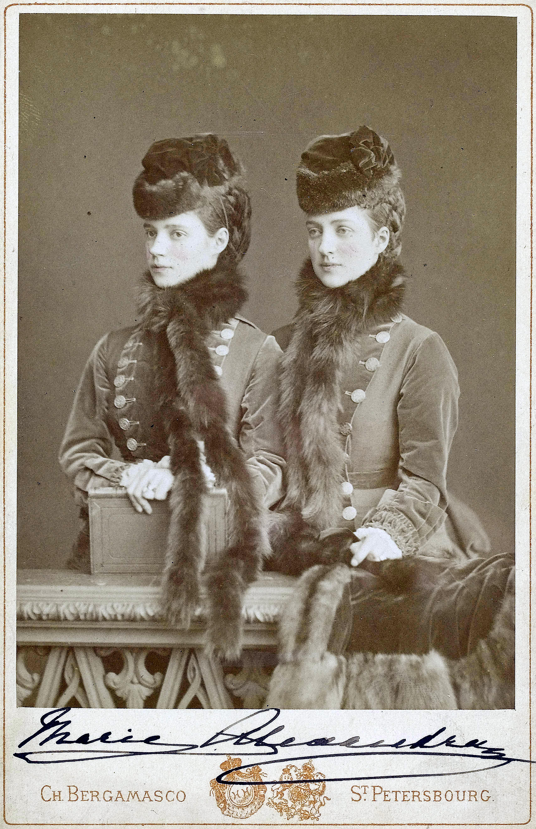 Tsarevna Maria Fyodorovna with her sister the Princess of Wales Alexandra of Denmark.